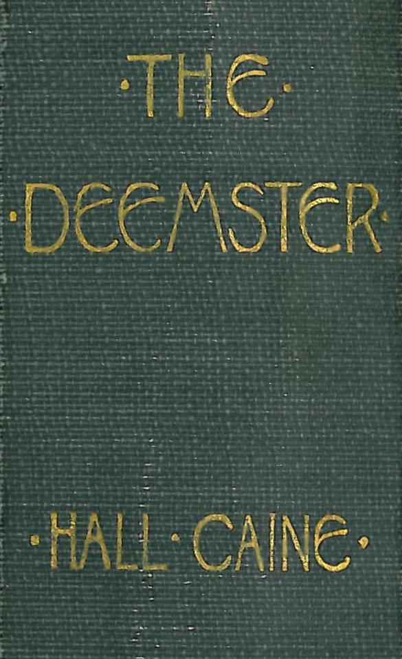 'The Deemster' by Hall Caine - A crop/detail of the spine of the 1921 Chatto & Windus edition